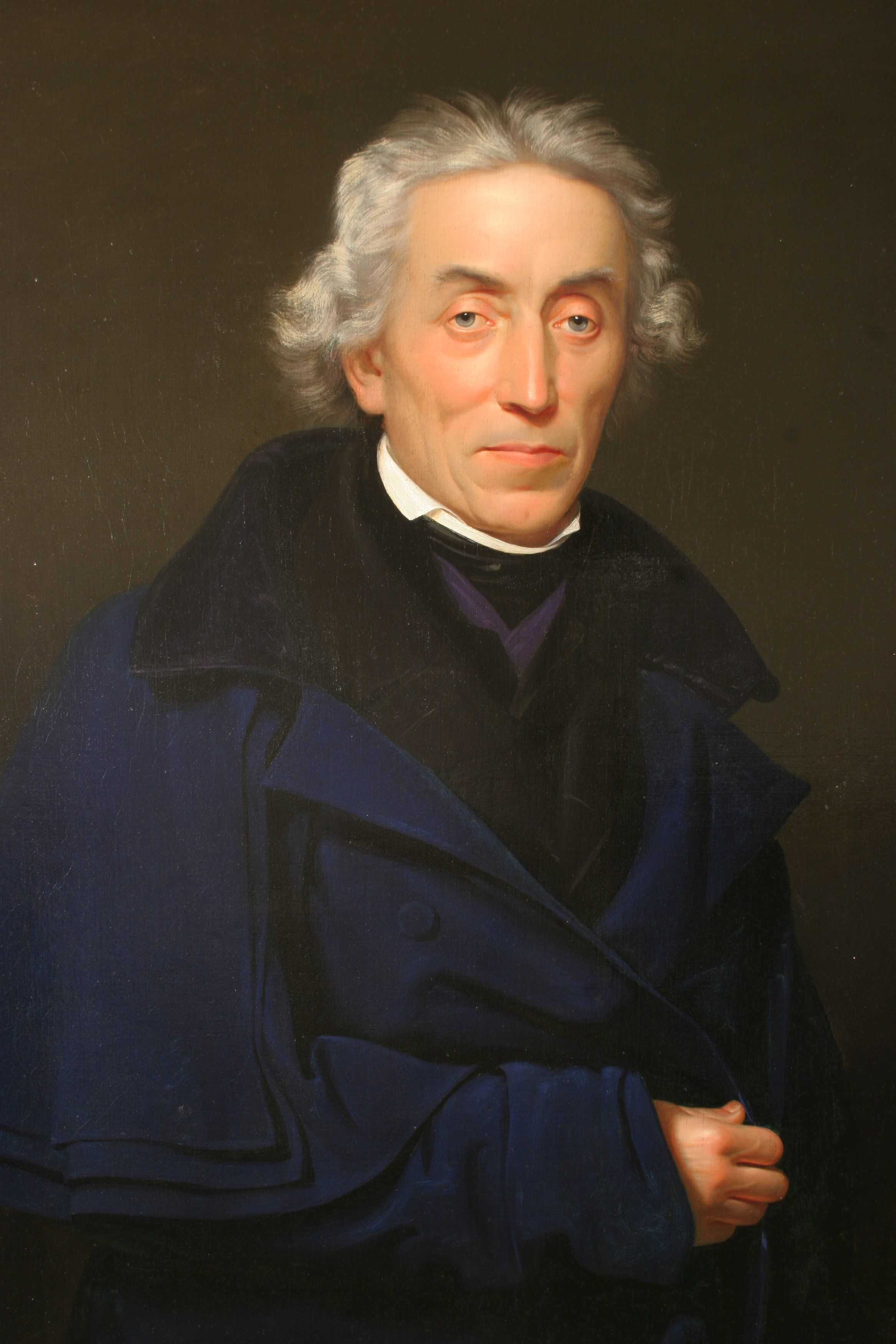 Portrait of Josef Dobrovský (1753–1829), Czech philologist, "the father of Slavic Studies" and founder of Czech studies